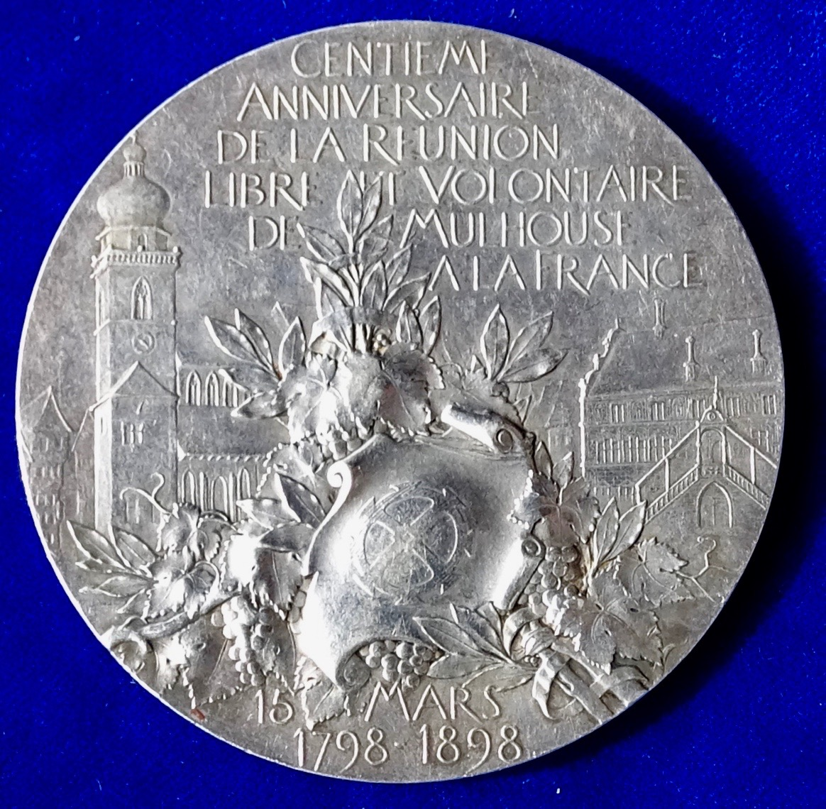 France, Silver Medal 1898 by Frederic Vernon 100 Years Mulhouse within Alsace. Medallion d. = 68 mm. 146.80 g Ag. The republic of Mulhouse gets embraced by the French Republic. At l. on altar: "PATRIA". 9 lines at r.: "LA REPUBLIQUE DE MUHLHAUSEN REPOSE DANS LE SEIN DE LA REPUBLIQUE FRANCAISE". 2 lines in exergue: "XXV VENTOSE AN VI"./ The arms of Mulhouse in front of a city view. 6 lines above: "CENTIEME ANNIVERSAIRE DE LA REUNION LIBRE ET VOLONTAIRE DE MULHOUSE A LA FRANCE". 2 lines below: "15 MARS 1798 - 1898". At the edge: "ARGENT". Wurzbach 6430 (Bronze) Artist: F. Vernon (Frederic Charles Victor de Vernon), 1858 Paris - 1912 Paris Condition: EXTREMELY FINE+. Old patina. A tiny chip at 4 o'clock.